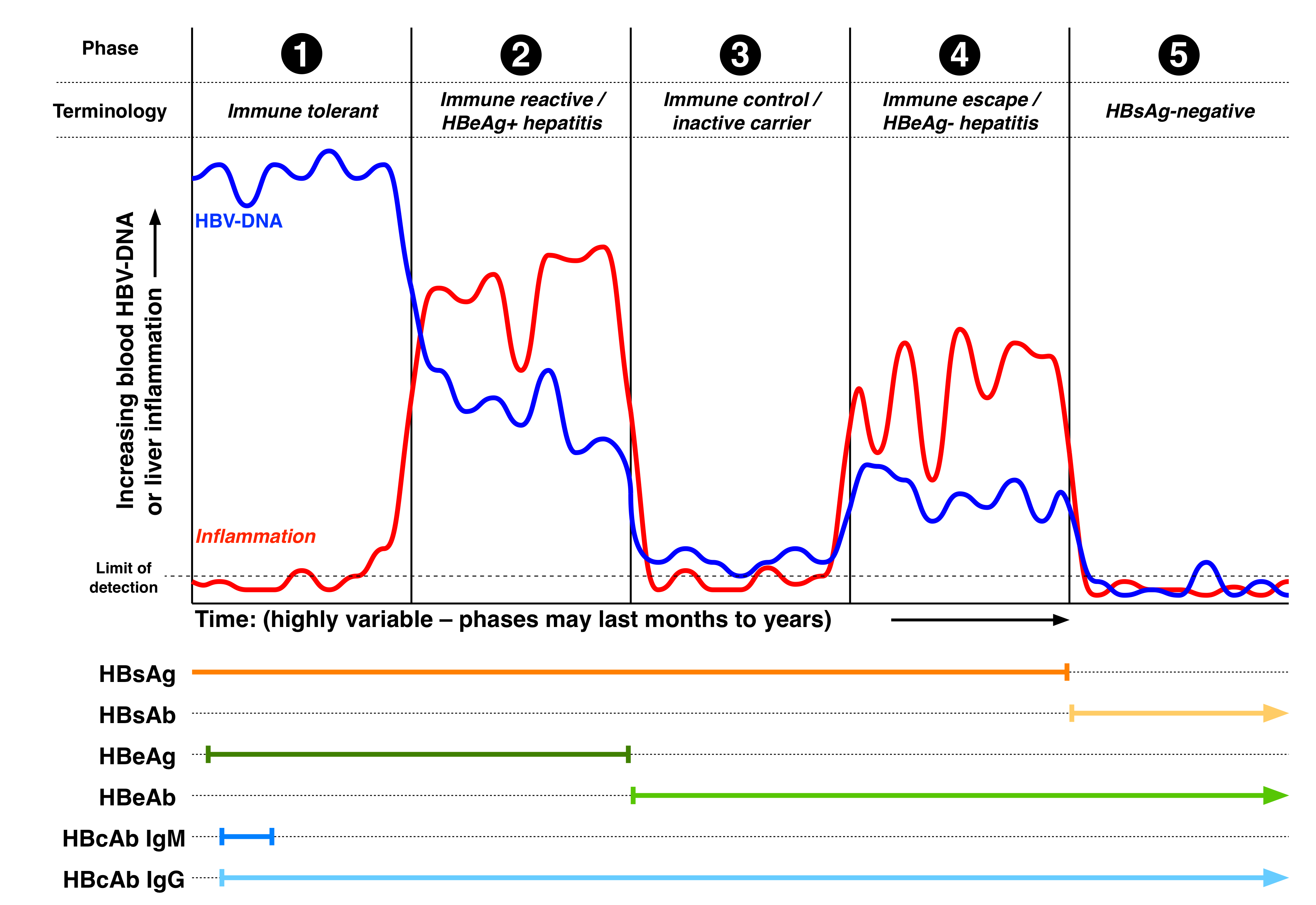 Graph and line plot detailing the approximate trajectories of blood hepatitis B virus DNA levels and of liver inflammation over time. Hepatitis B virus serology (HBsAg: hepatitis B surface antigen; HBsAb: hepatitis B surface antibody; HBeAg: hepatitis B e antigen; HBeAb: hepatitis B e antibody; HBcAb IgM: hepatitis B virus core immunoglobulin M antibody; HBcAb IgG: hepatitis B core antibody IgG) is also shown. The graph describes the five phases of chronic hepatitis B infection as detailed in the 2017 European Association for the Study of the Liver guidelines.